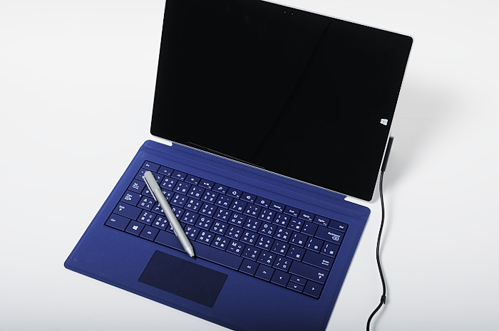 Surface Pro 3 with Type Cover and Surface Pen